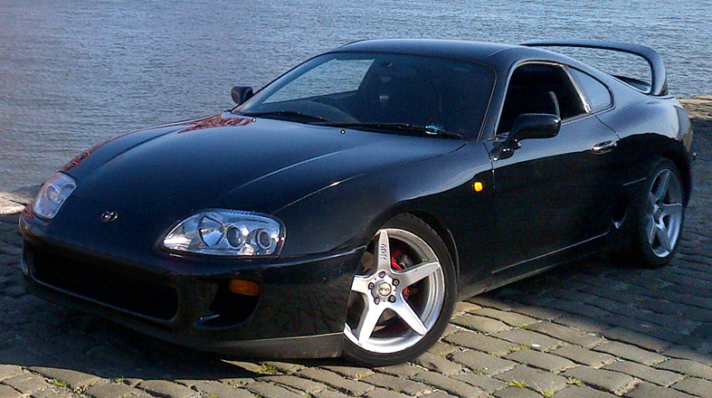 Picture of a 1993 JZA80 Toyota Supra SZ in the Daylight, Black in Colour, With aftermarket alloy wheels.jpg